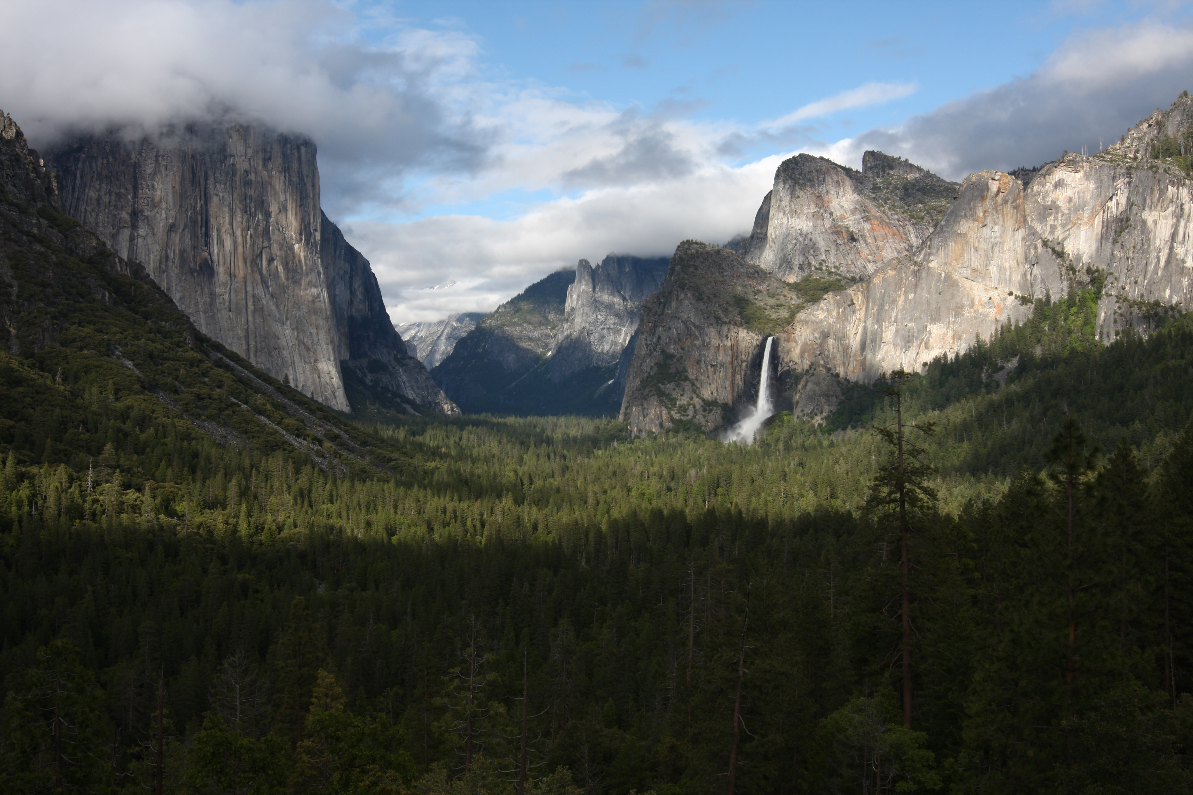 classic yosemite valley